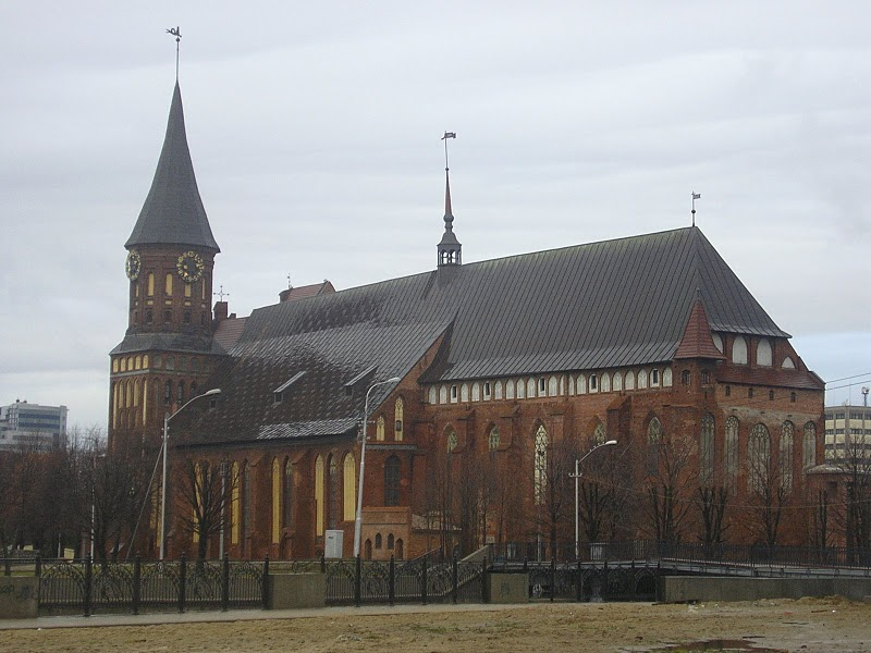 Cathedral in the Russian city of Kaliningrad Собор в городе Калиниград, РФ.